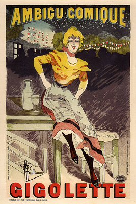 Poster (lithograph) by Albert Guillaume for « Gigolette », production at Theâtre de l'Ambigu printed by Imprimerie Chaix, Paris, 1896